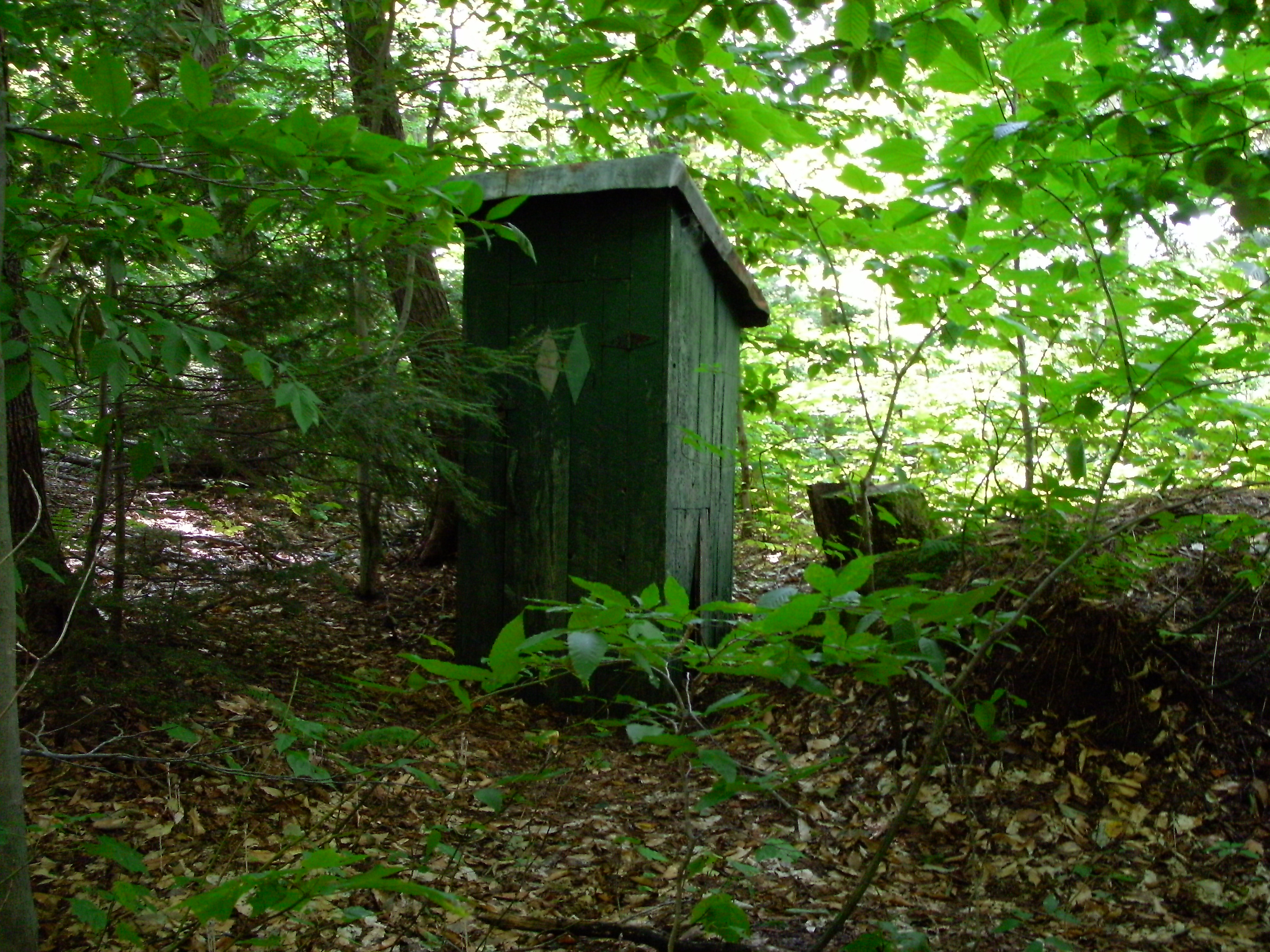 Disused outhouse (privy, earth closet) in Laurentians region of Quebec, Canada, built circa 1925.